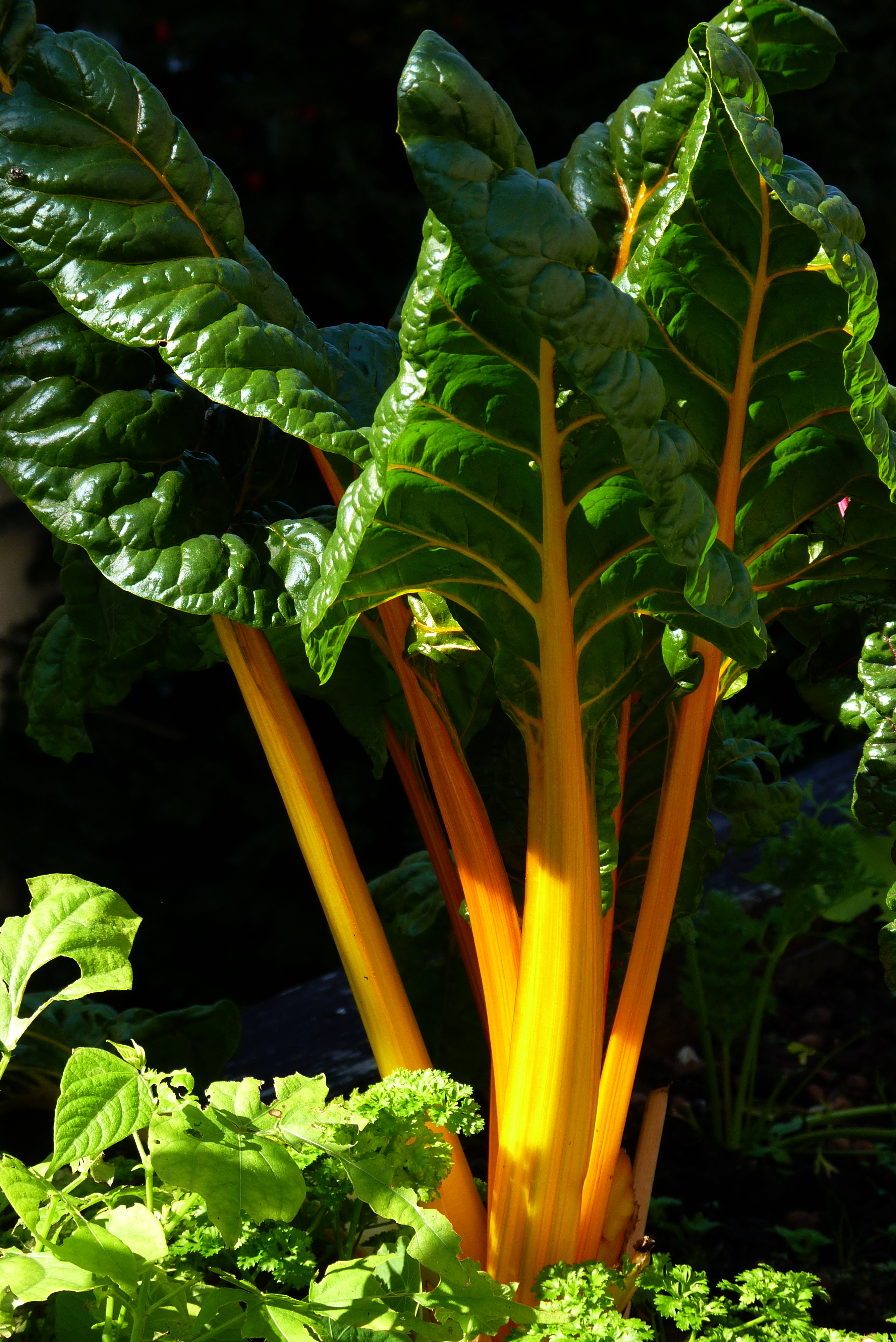 Chard